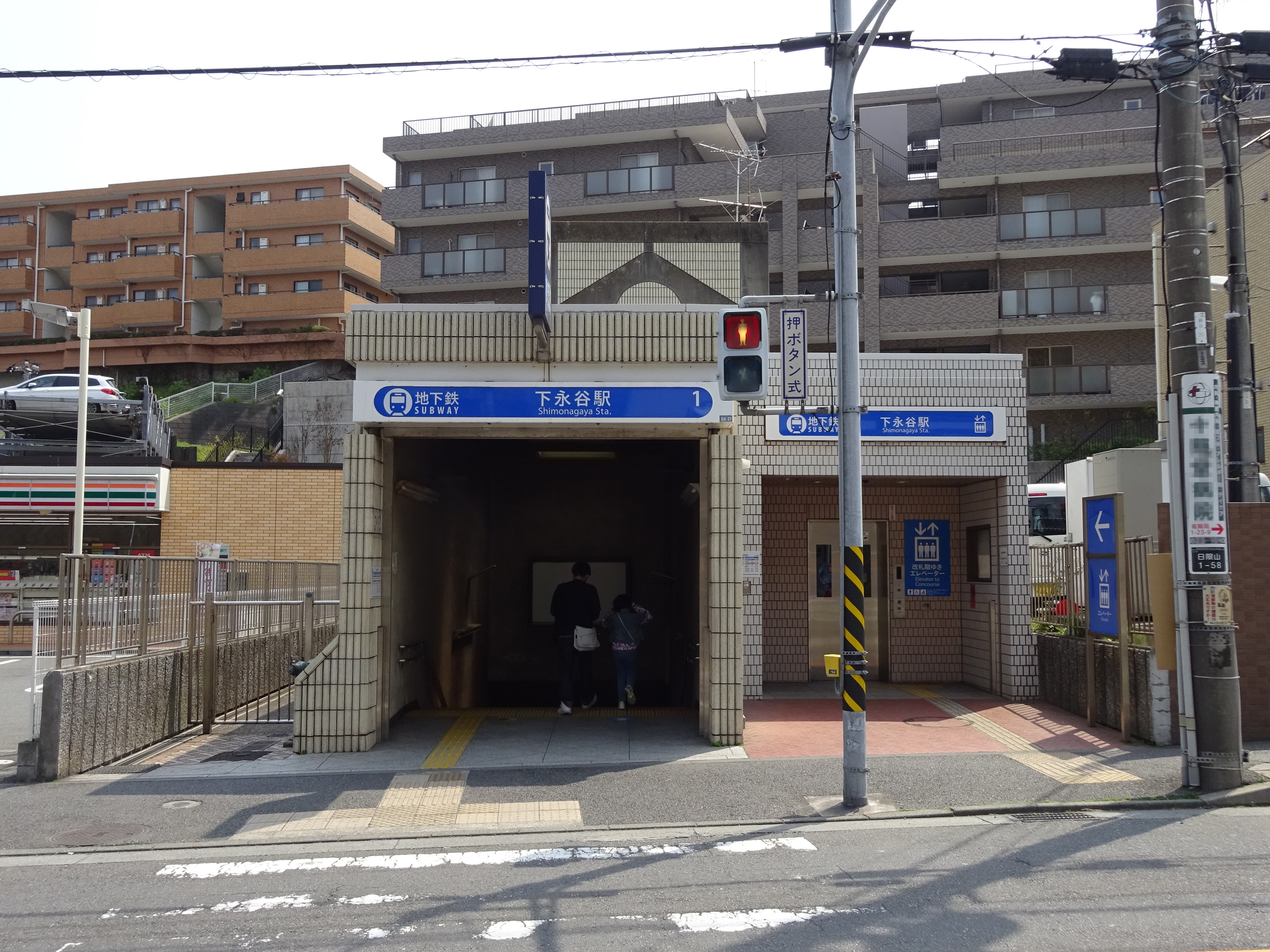 Shimonagaya Station Exit No.1